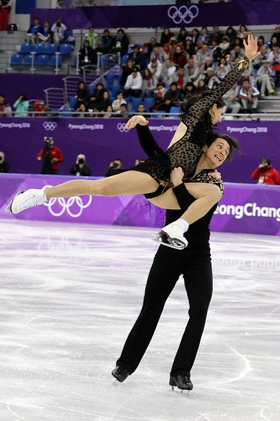 Tessa Virtue and Scott Moir at the 2018 Winter Olympic Games in PyeongChang